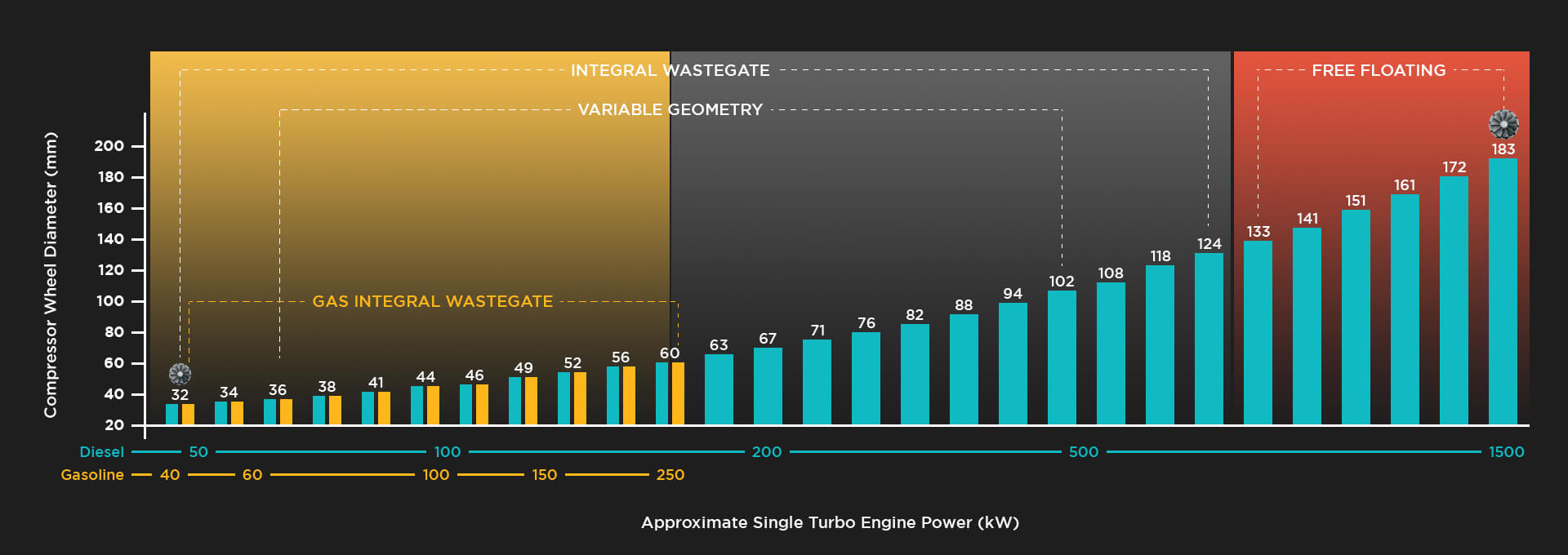 Broadest Turbo Range Garrett’s turbo portfolio covers the widest engine range in the automotive industry. From micro turbos for small cars to large turbos for off-highway equipment, Garrett’s line-up offers the world’s auto manufacturers boosting solutions for gasoline, diesel, CNG, hybrid powertrains and hydrogen fuel cells.